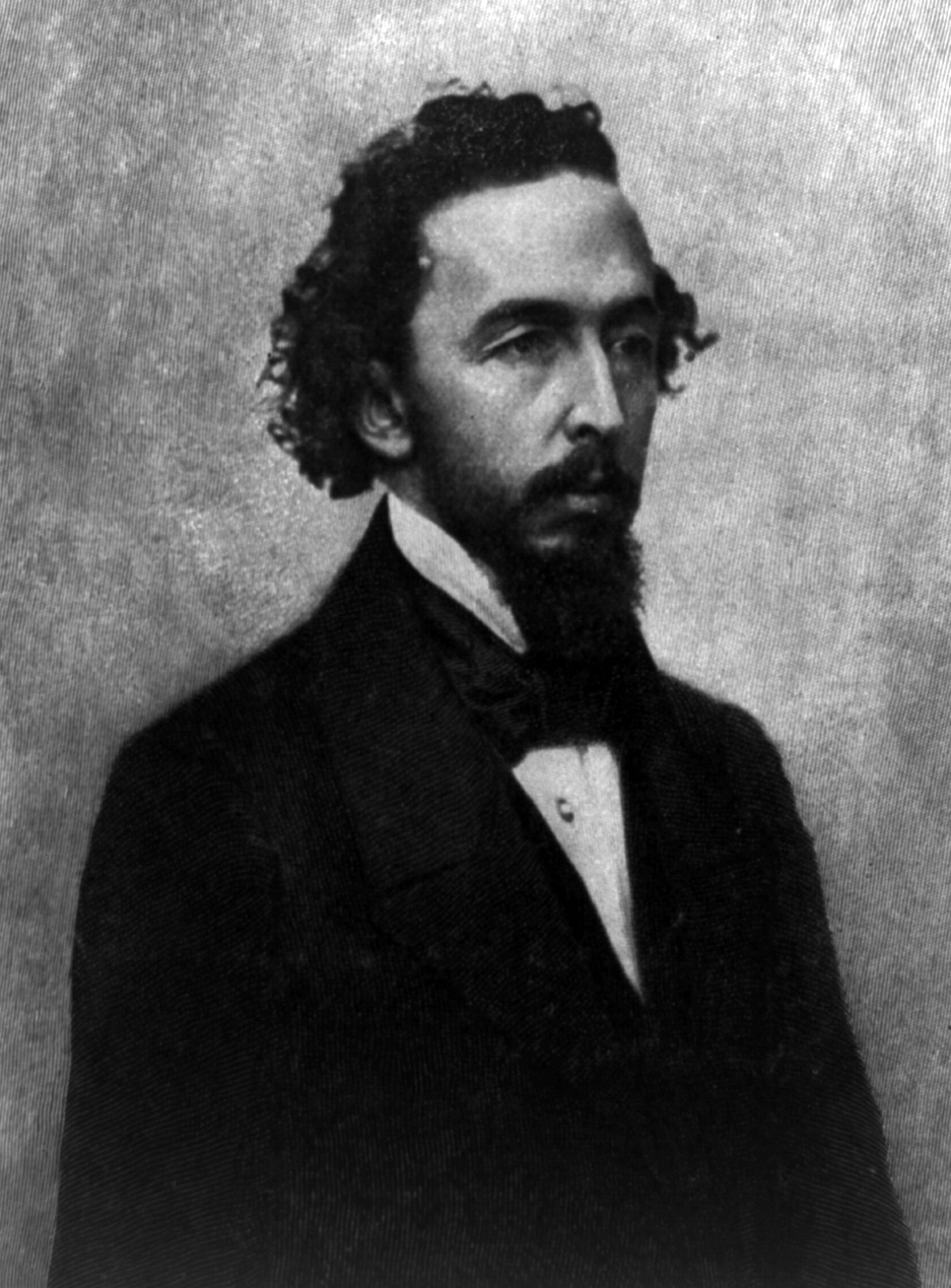 Bayard Taylor, head-and-shoulders portrait, facing right CALL NUMBER: BIOG FILE--Taylor, Bayard, 1825-1878 [P&P] REPRODUCTION NUMBER: LC-USZ62-93364 (b&w film copy neg.) MEDIUM: 1 photomechanical print : halftone. CREATED/PUBLISHED: [between 1890 and 1950(?)] SUBJECTS: Taylor, Bayard, 1825-1878. FORMAT: Portraits 1880-1950. Halftone photomechanical prints 1890-1950. DIGITAL ID: (b&w film copy neg.) cph 3b39556 VIDEO FRAME ID: LCPP003B-39556 (from b&w film copy neg.)